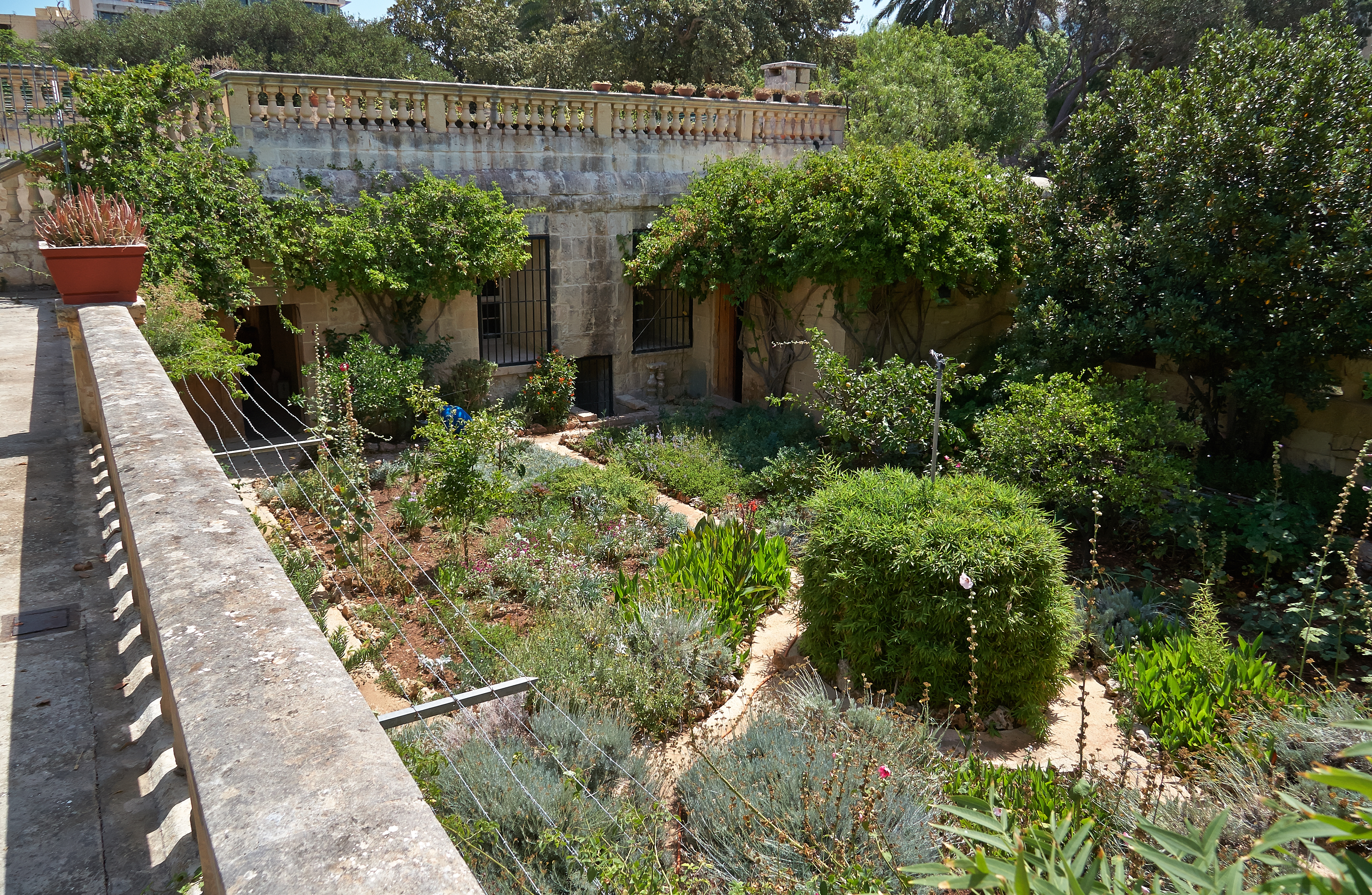 Argotti gardens